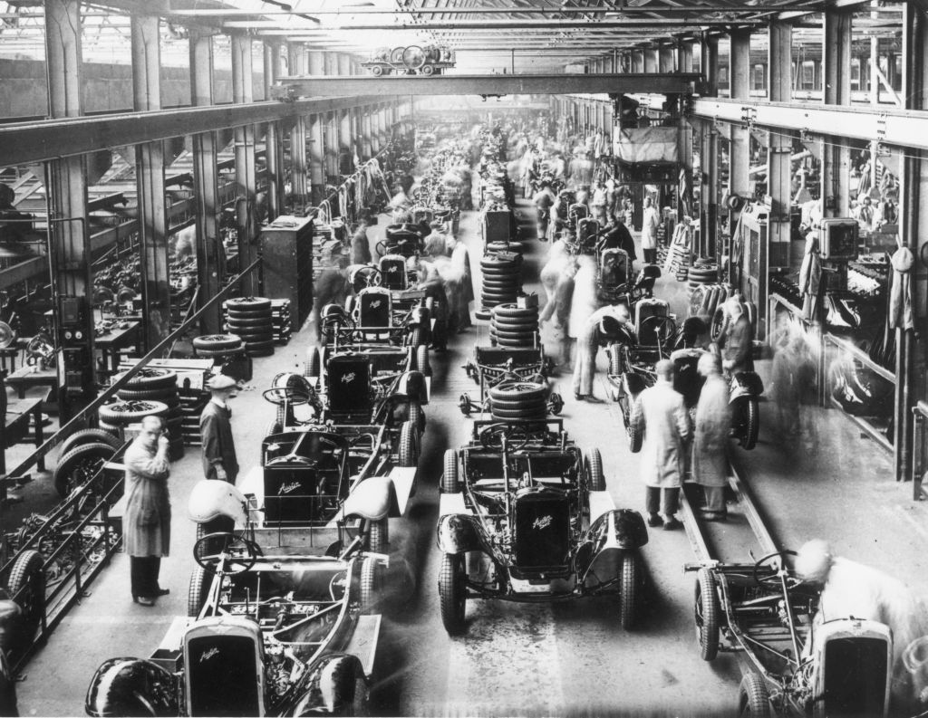 placeholder placeholder placeholder